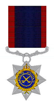 Indian Order of Merit, single class, 1944